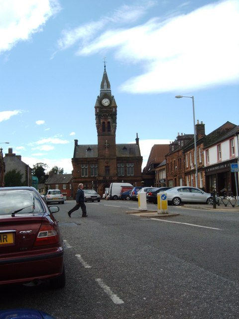 Annan Town Hall